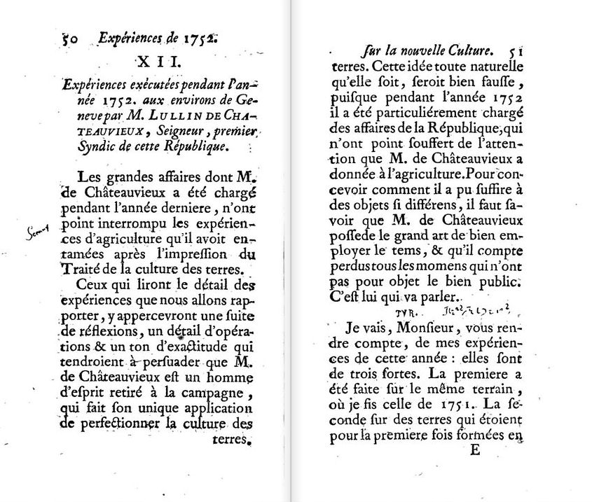 Article in Expériences et réflexions sur la culture des terres, faites pendant l'année 1752, p. 50-51